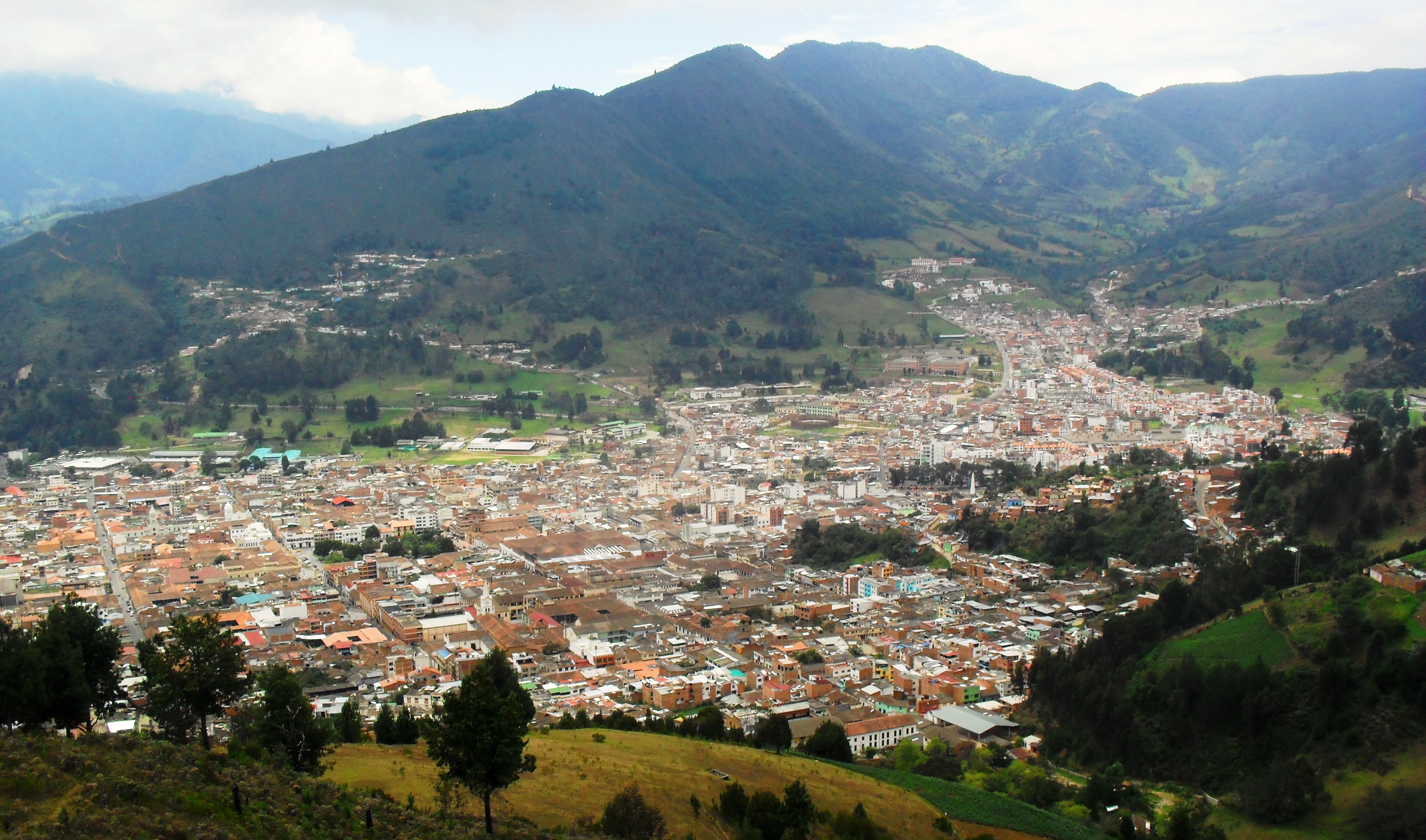 View of Pamplona,Colombia